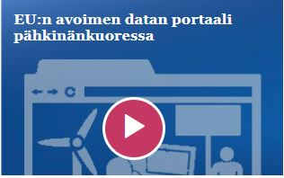 Screenshot from EUODP